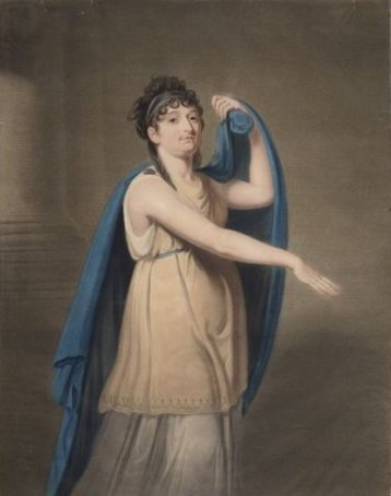 Johanna Cornelia Ziesenis-Wattier in the role of Epicharis for the Amsterdam Theatre, 1805